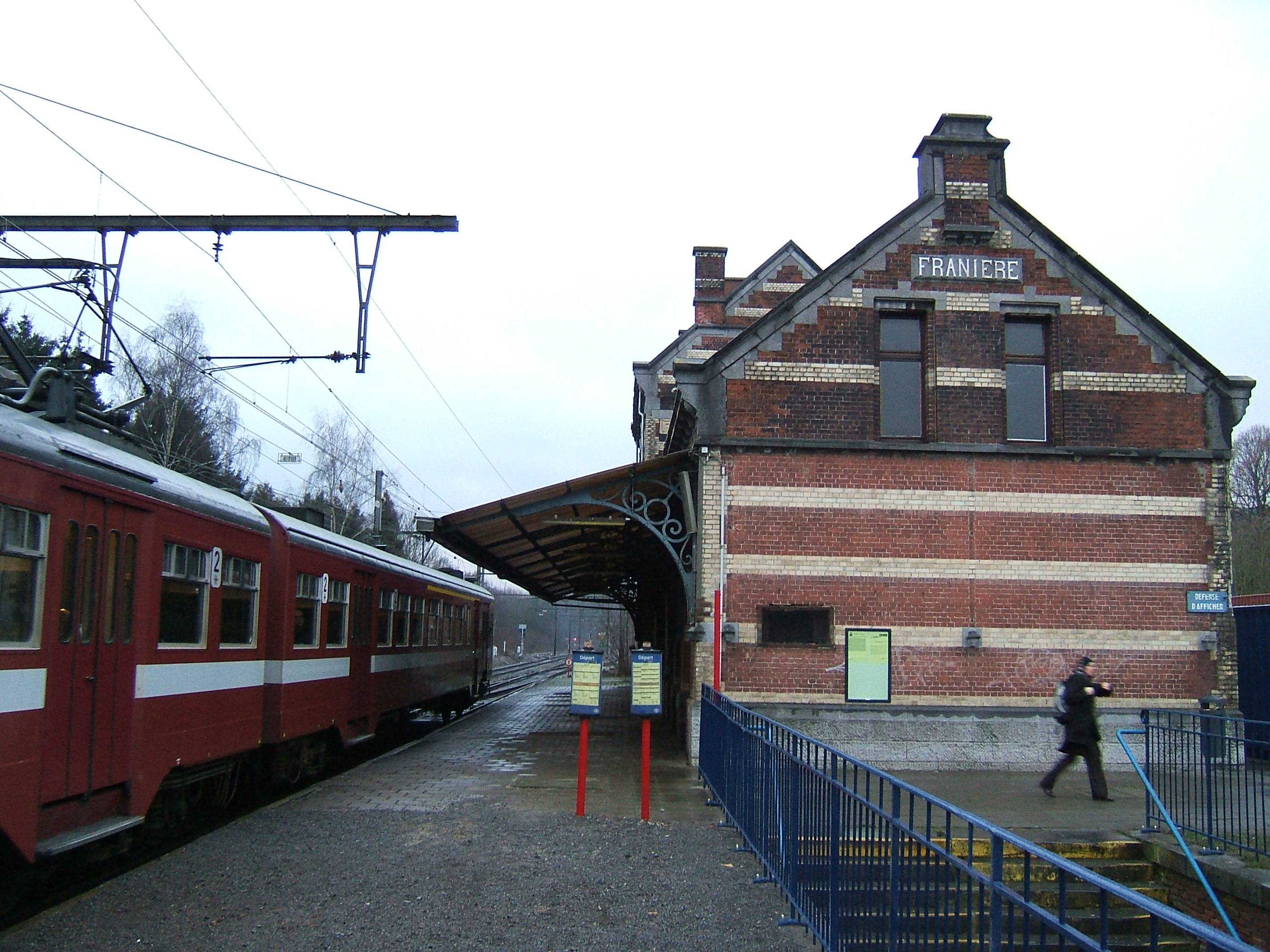 Franière, Belgium, railway station